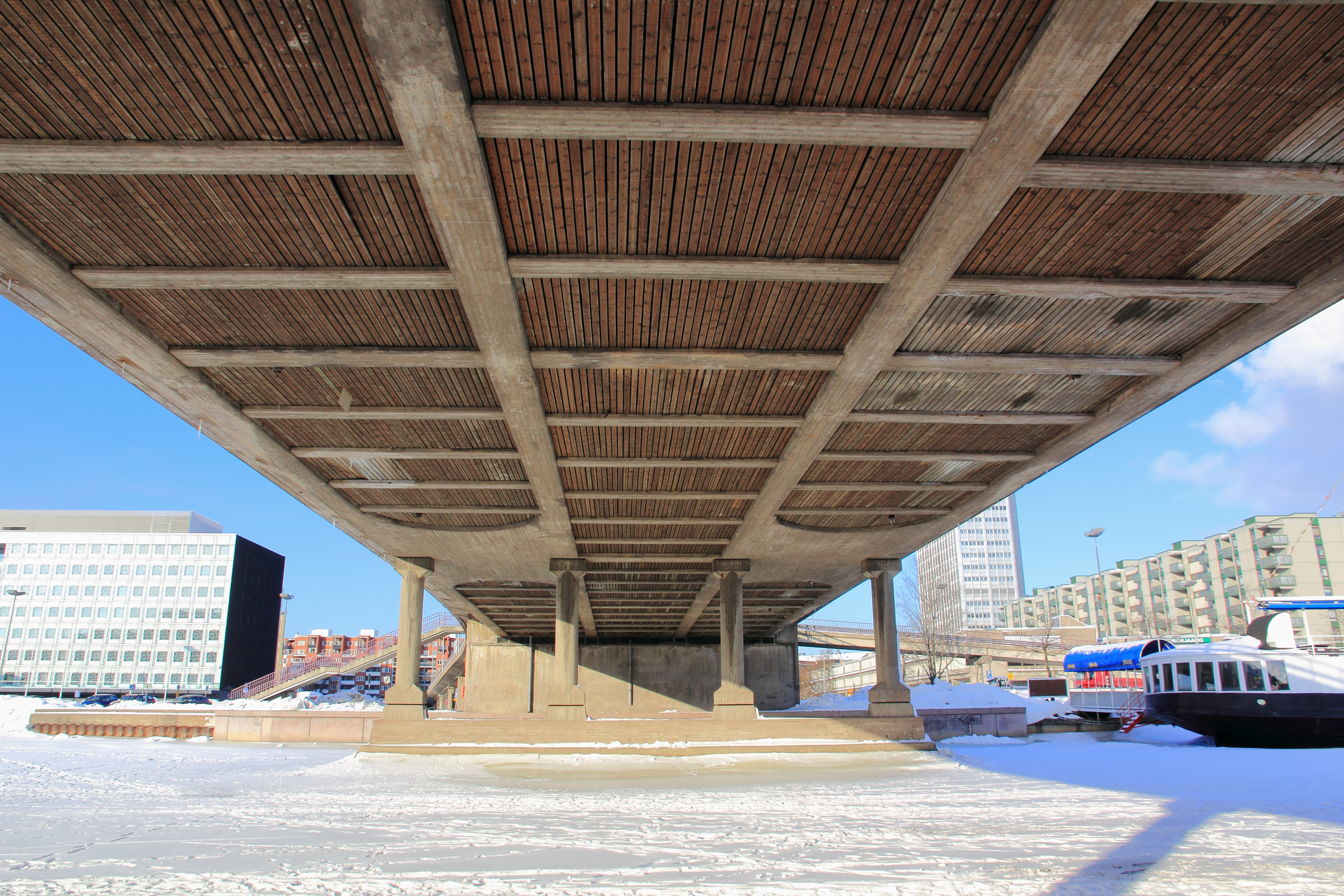 Underside of Hakaniemi bridge.